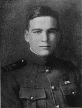 Photograph of David Sinton Ingalls, American World War I fighter ace serving in the Royal Air Force.